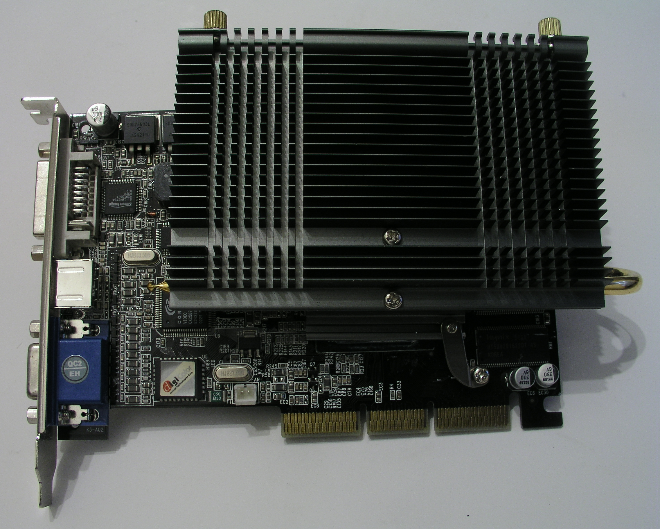 GeForce3 Ti4200 with Zalman heatpipe